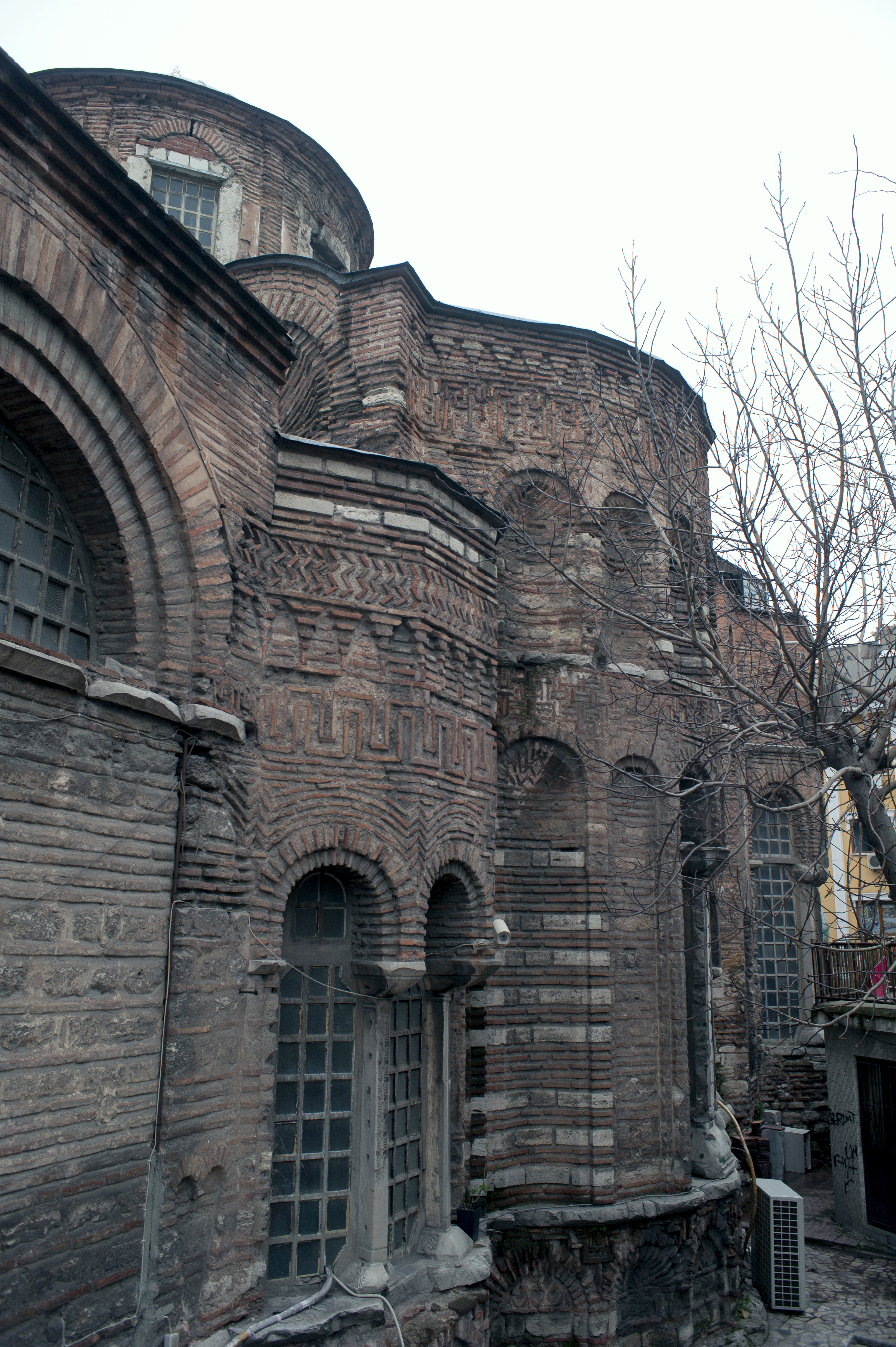 Fenari Isa Mosque, Fatih, Istanbul, Turkey. Some decorative herring-bone work is used in the upper part of the first apse on the left